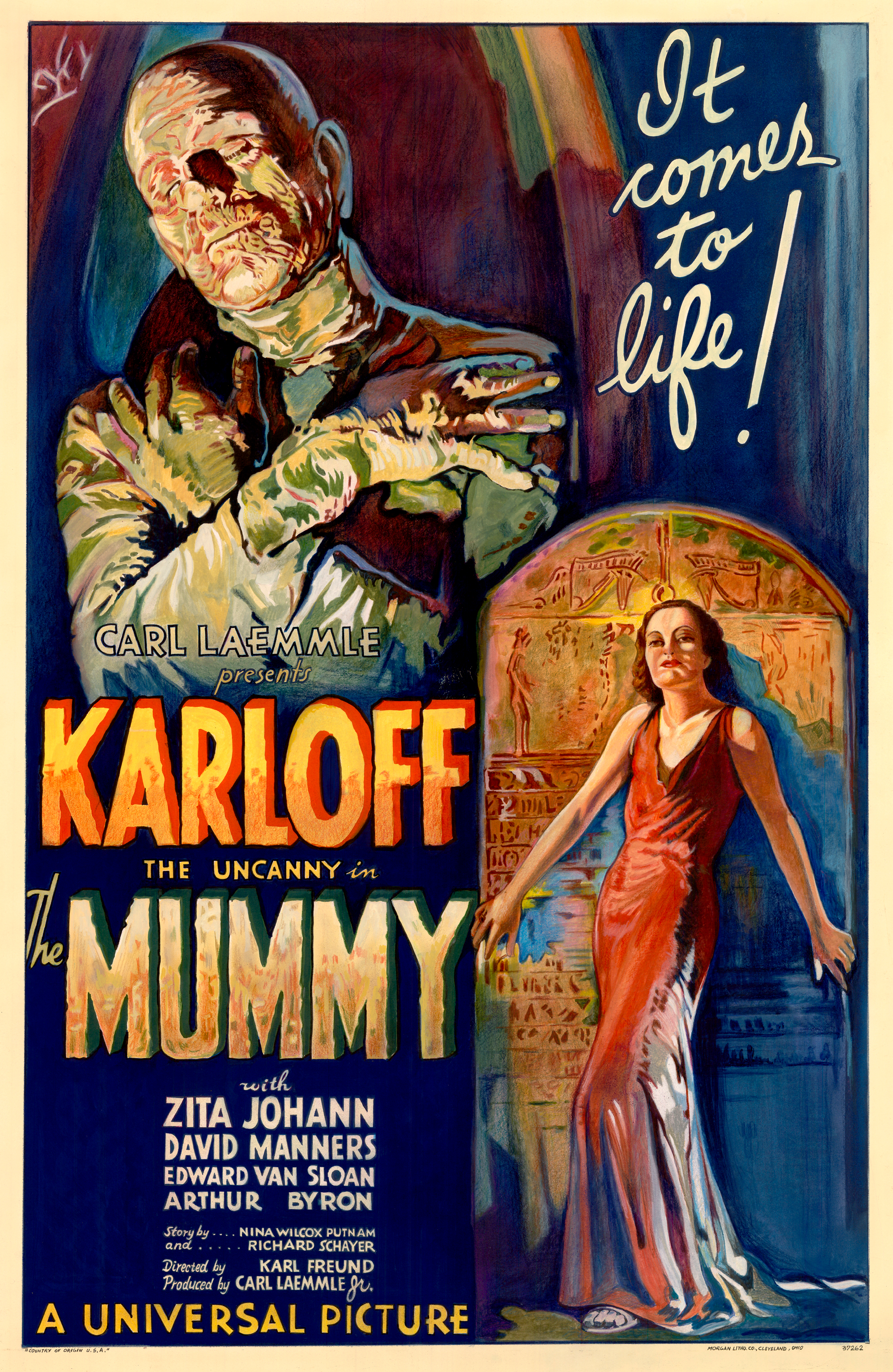 Official film poster for The Mummy (1932). The copyright is believed to be owned by Universal Pictures, and/or its graphic artist.